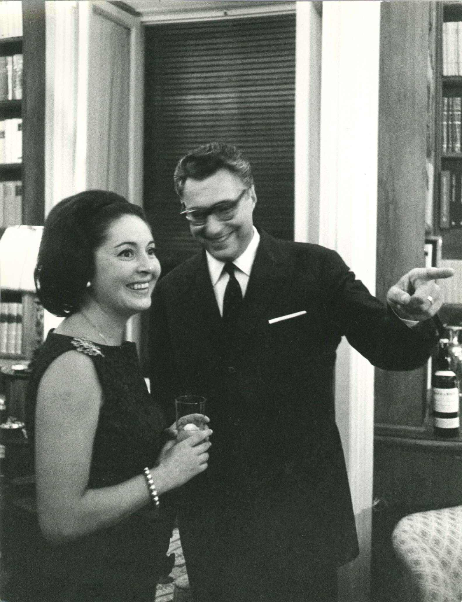 The Italian drama actress Lea Padovani with Italian writer Luigi Silori at Silori's place in Rome, Italy, 1963